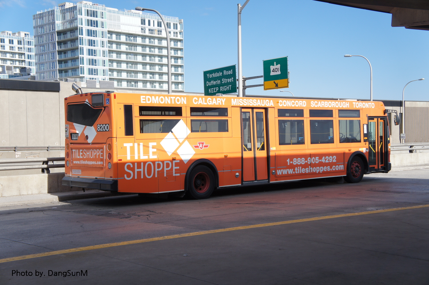 Toronto Transit Commission bus 8200 at Wilson subway station, wrapped for the Tile Shoppe.